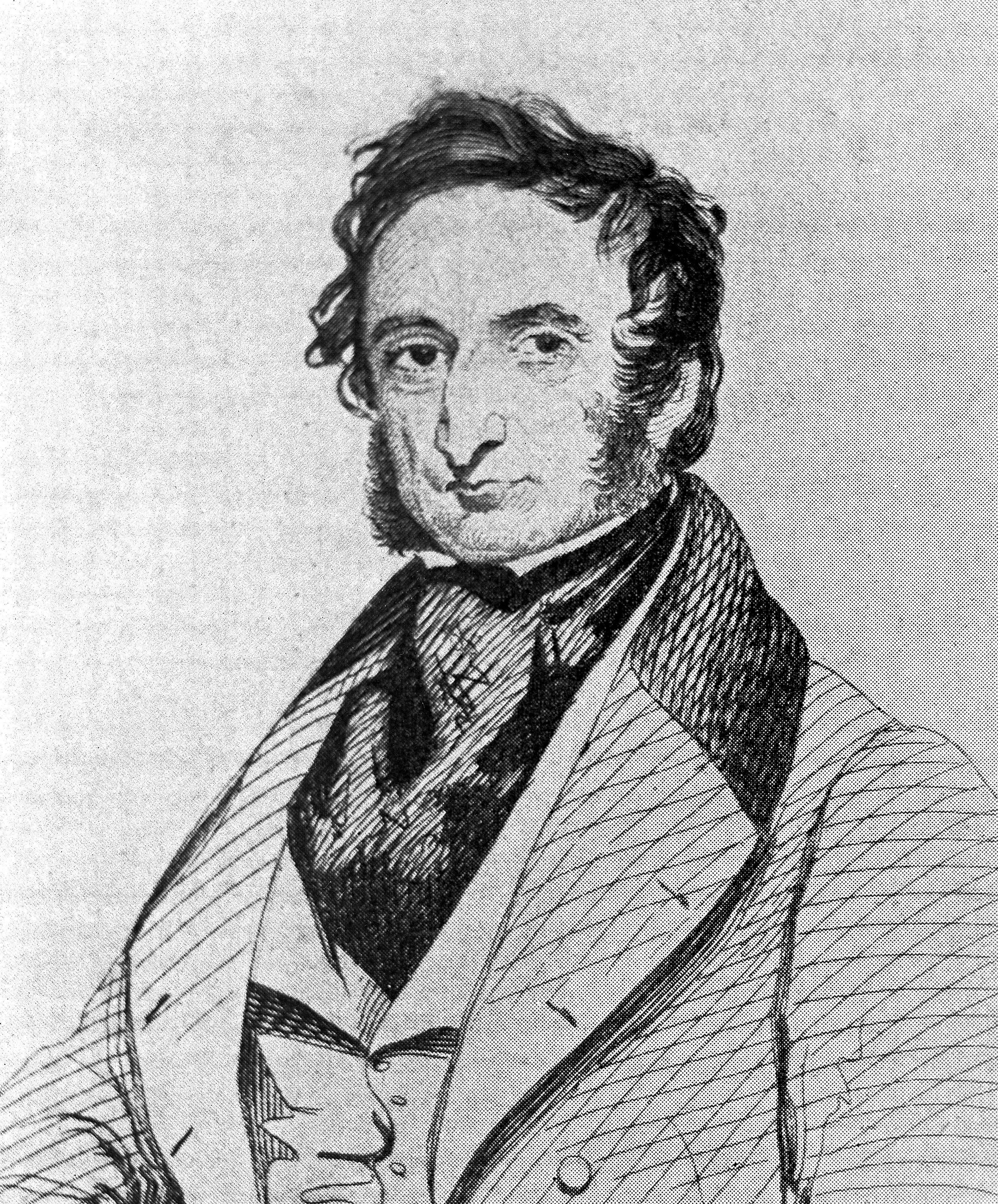 Robert James Graves portrait from "An introduction to the history of medicine, with medical chronology, bibliographic data and test questions" by Fielding H. Garrison (1913). here